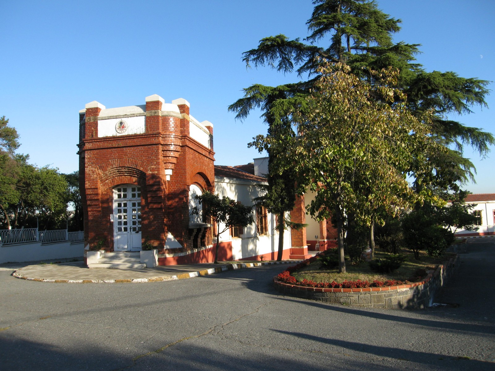 Yıldız Porcelain and Tile Factory complex within the grounds of Yıldız Park in Istanbul, Turkey.